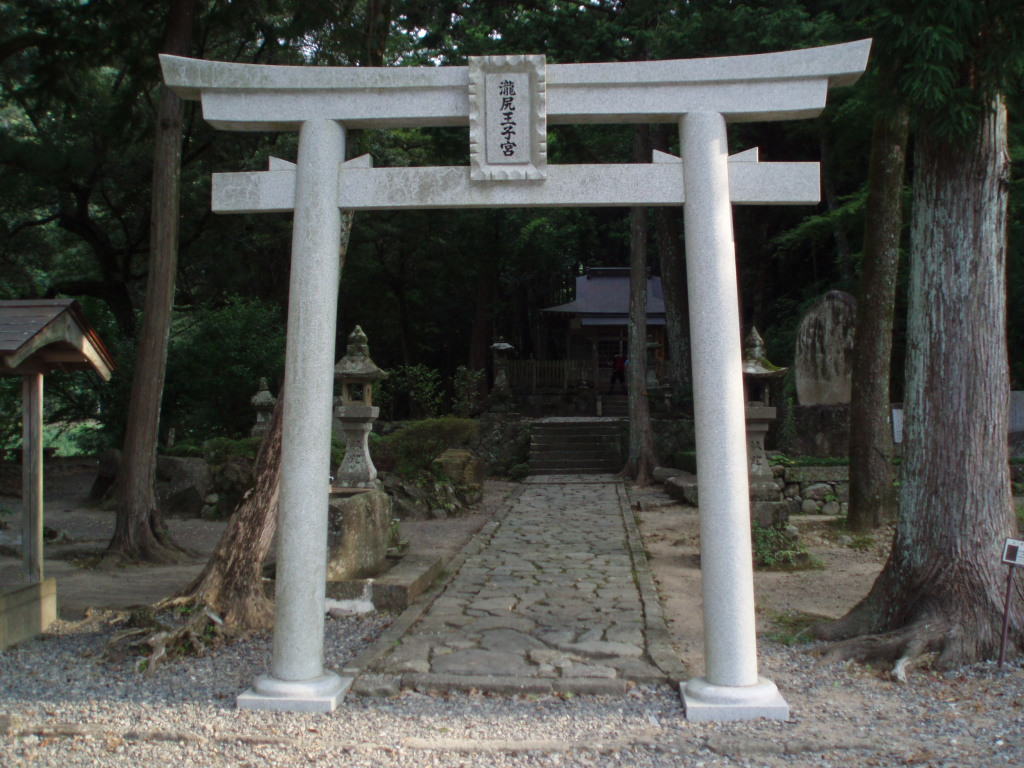 Sacred_arch_of__TAKIJIRI-oji_shrine